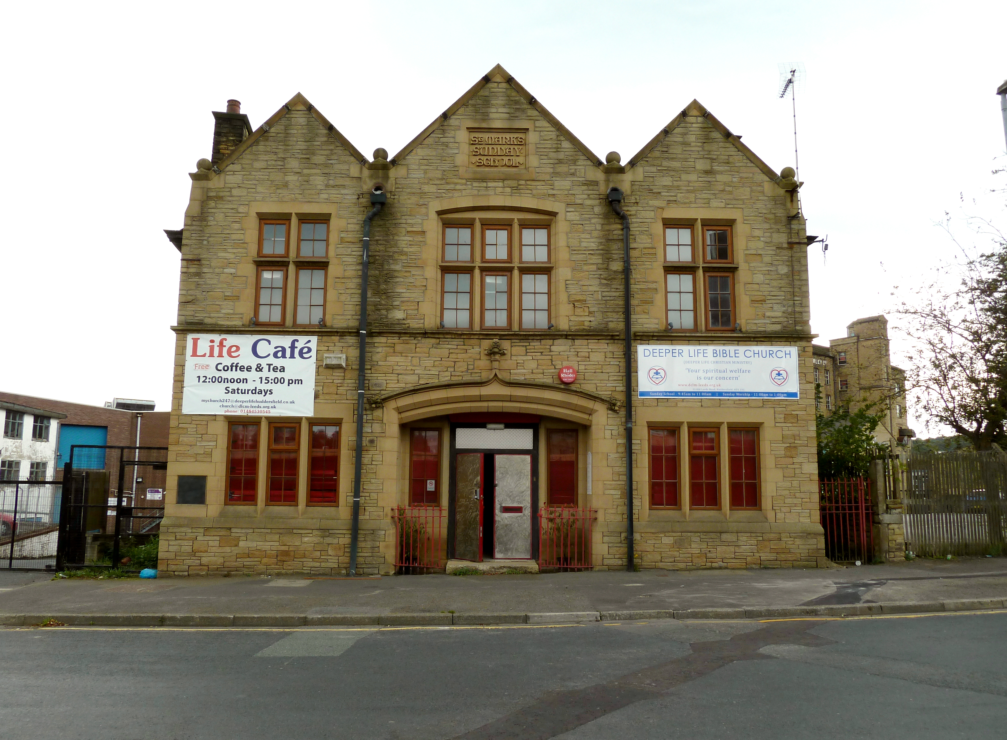 Former St Mark's Sunday school, Old Leeds Road, Huddersfield, North Yorkshire, England. Built around 1887, possibly designed by architect William Swinden Barber. Showing front wall.